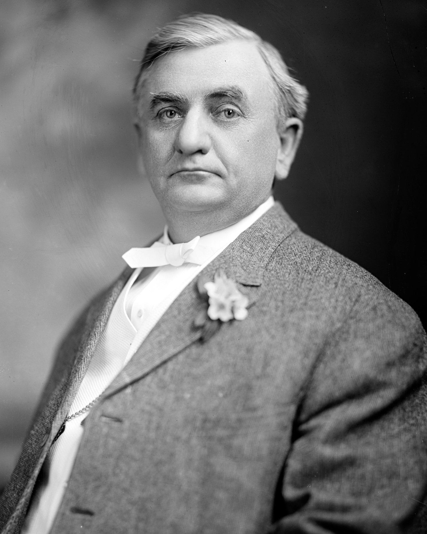 Thomas Montgomery Bell, US Representative from Georgia